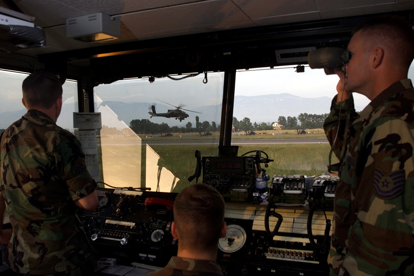 Technical Sgt(TSgt) Joe Odom(right), Air Traffic Controller from the 46th Operation Support Squadron, Eglin AFB, Florida, helps coordinate aircraft traffic in Tirana, Albania, May 31, 1999. Air Force and Army air traffic controllers coordinate all military aircraft traffic at Tirana's IAP in support of operation Shining Hope and Task Force Hawk. A US Army AH-1 attack helicopter is seen in the background flying low over the runway from left to right.